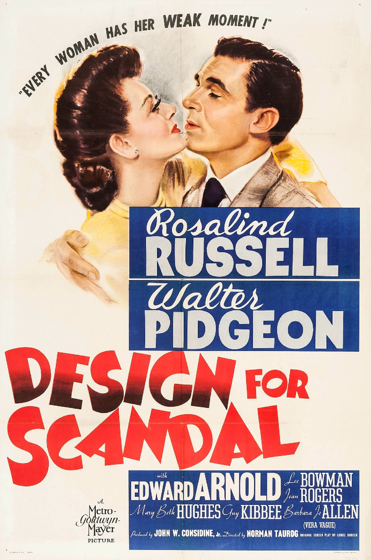 Poster for the 1941 film Design for Scandal. There are no copyright marks. At bottom left is Litho in USA 6696. At bottom right is Tooker Litho Co. NY.